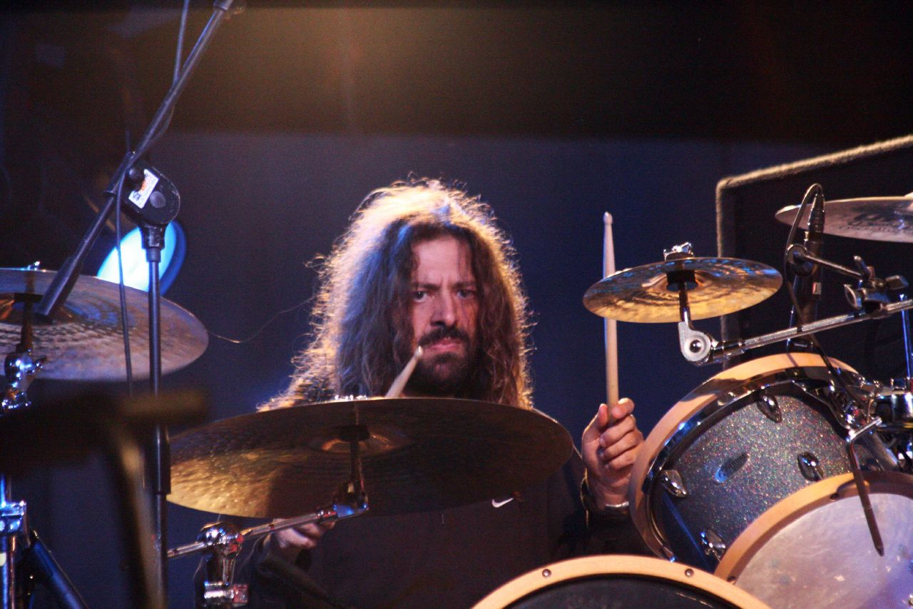 Alessandro "Nuto" Nutini in concert with Bandabardò